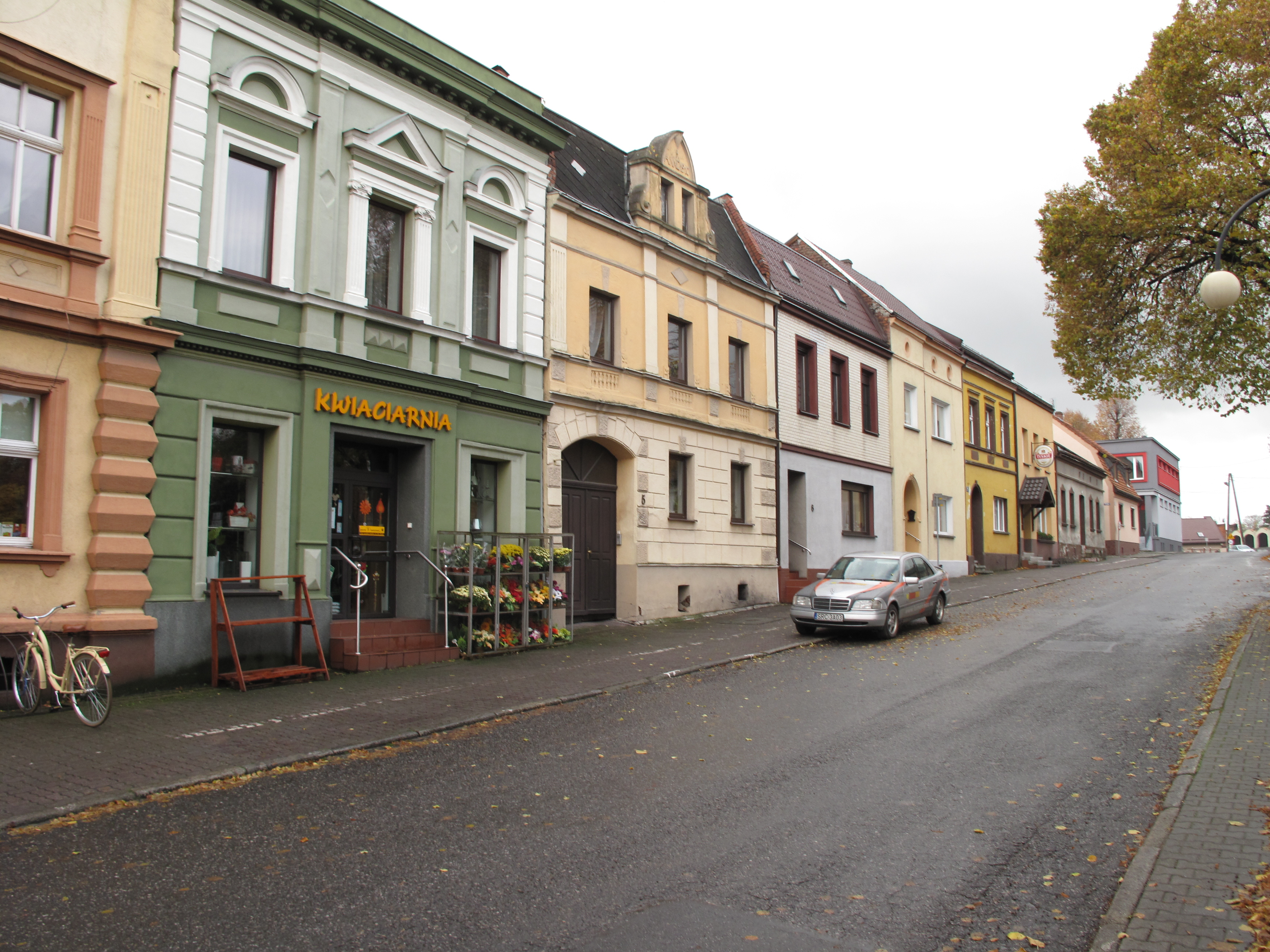 Krzanowice. Racibórz County, Poland.